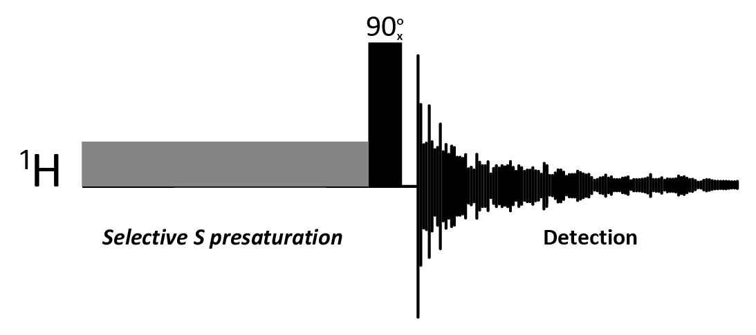 Steady-state pulse sequence for 1H NMR detection of the nuclear Overhauser effect